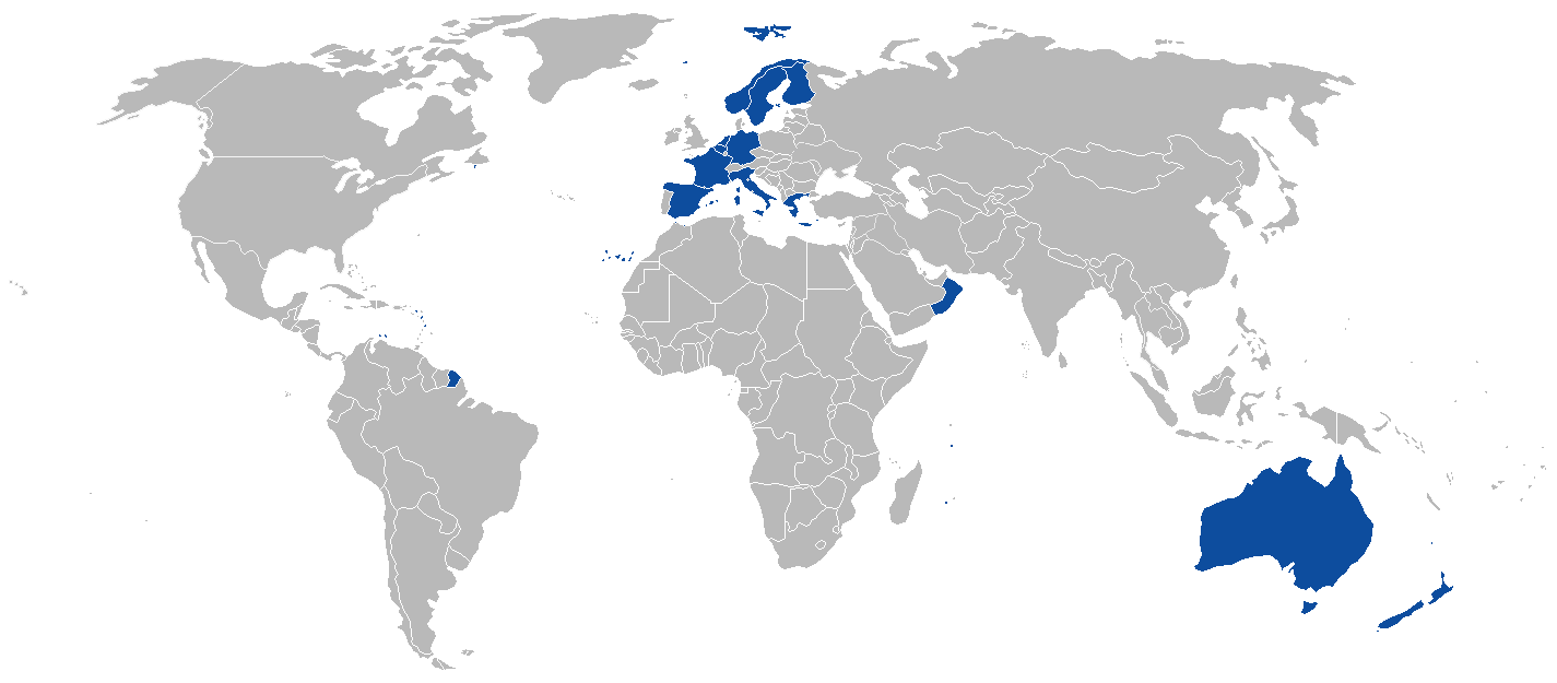 World operators of the NH-90